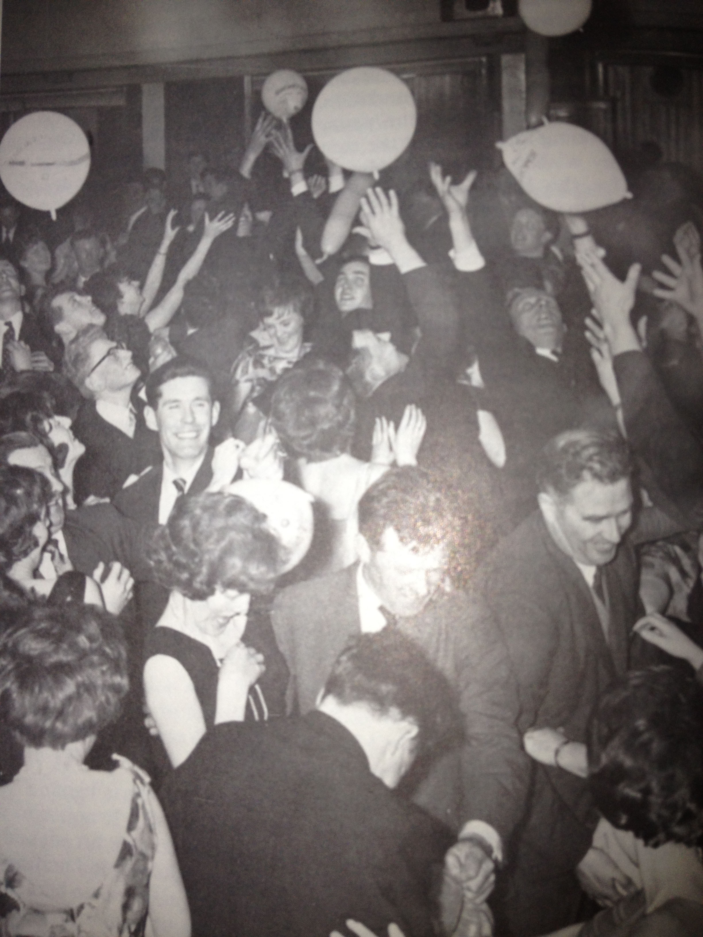 Young Farmers Social 1940-1960